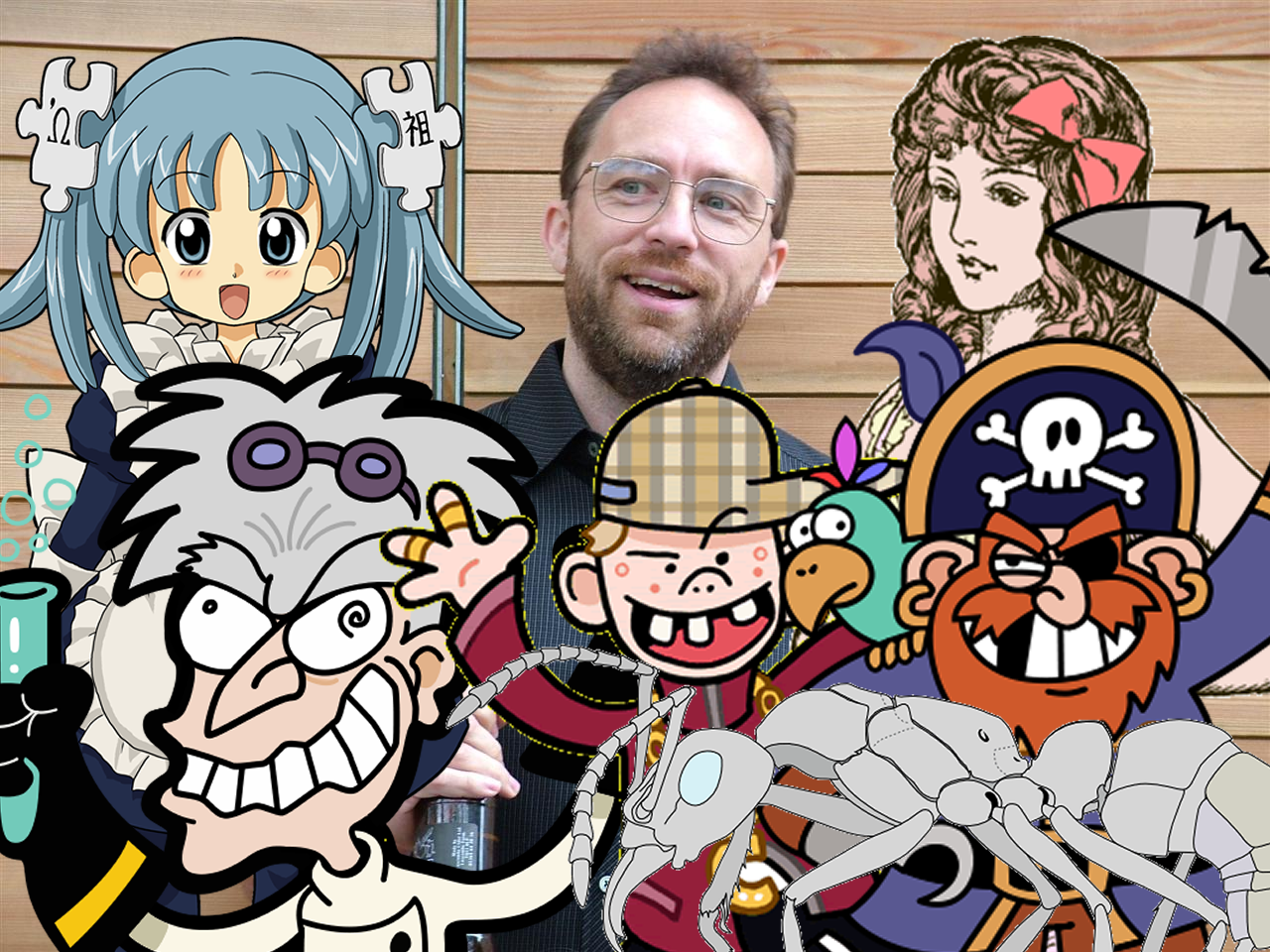 Jimbo Wales and friends.